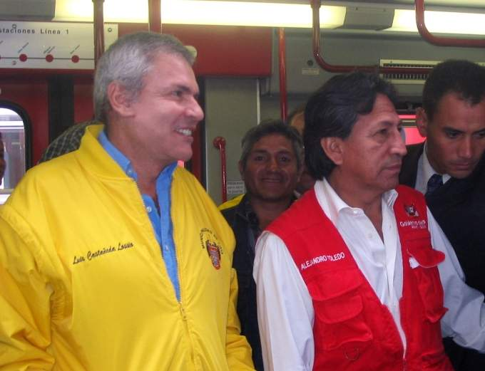 Lima's mayor Dr. Luis Castaneda Lossio and Peru's president Dr. Alejandro Toledo Manrique at the metro before the subscribing the convention